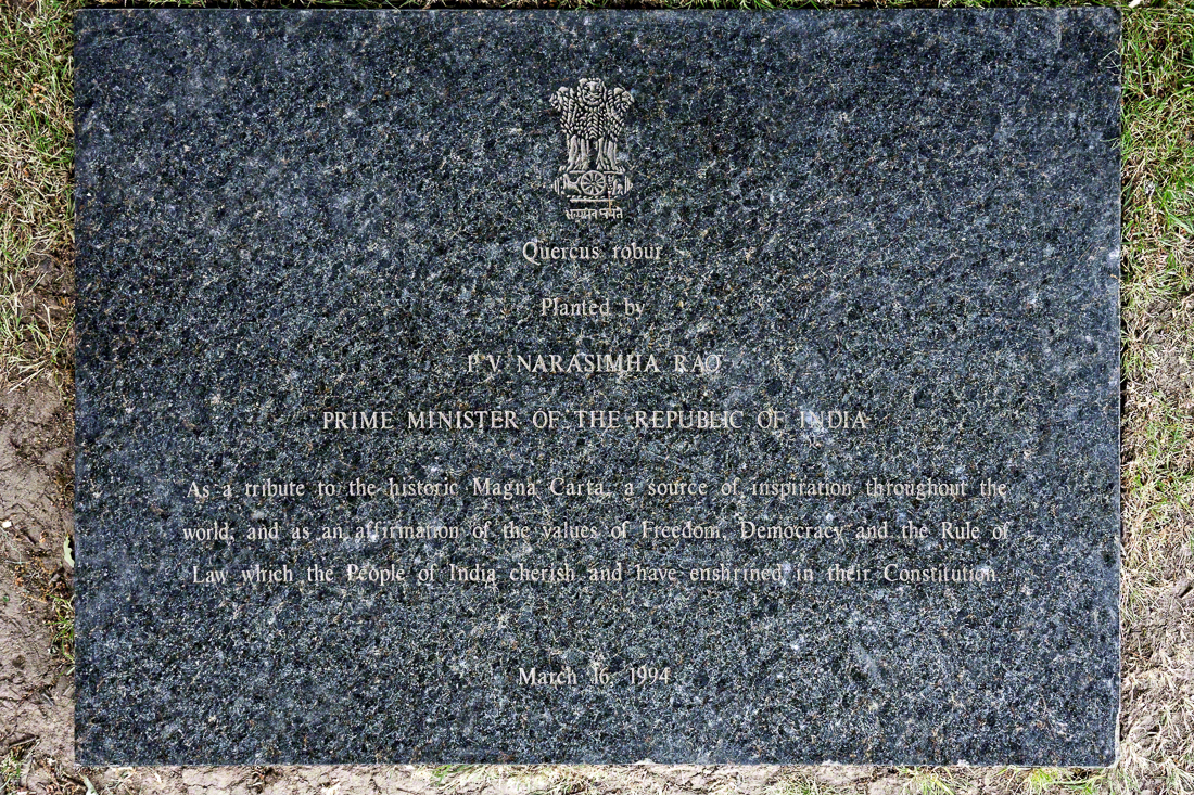 The plaque at the ABA monument Runnymede dedicated by PVN Rao on behalf of the Republic of India and installed under the oak tree planted by him at the site